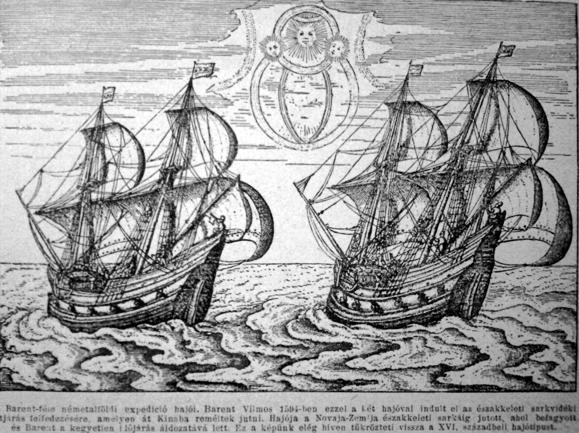 Barents' ships 1594